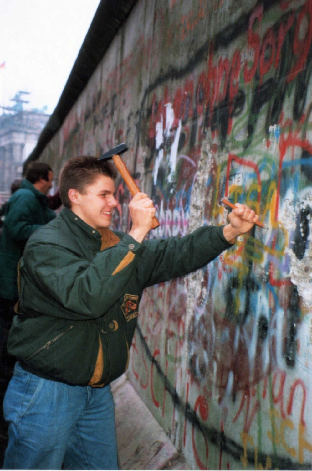 Wall woodpecker Andree Werder from Winsen (Luhe) in November 1989 at the Berlin Wall on the Ebertstraße in Berlin-Mitte. In the background the Brandenburg Gate